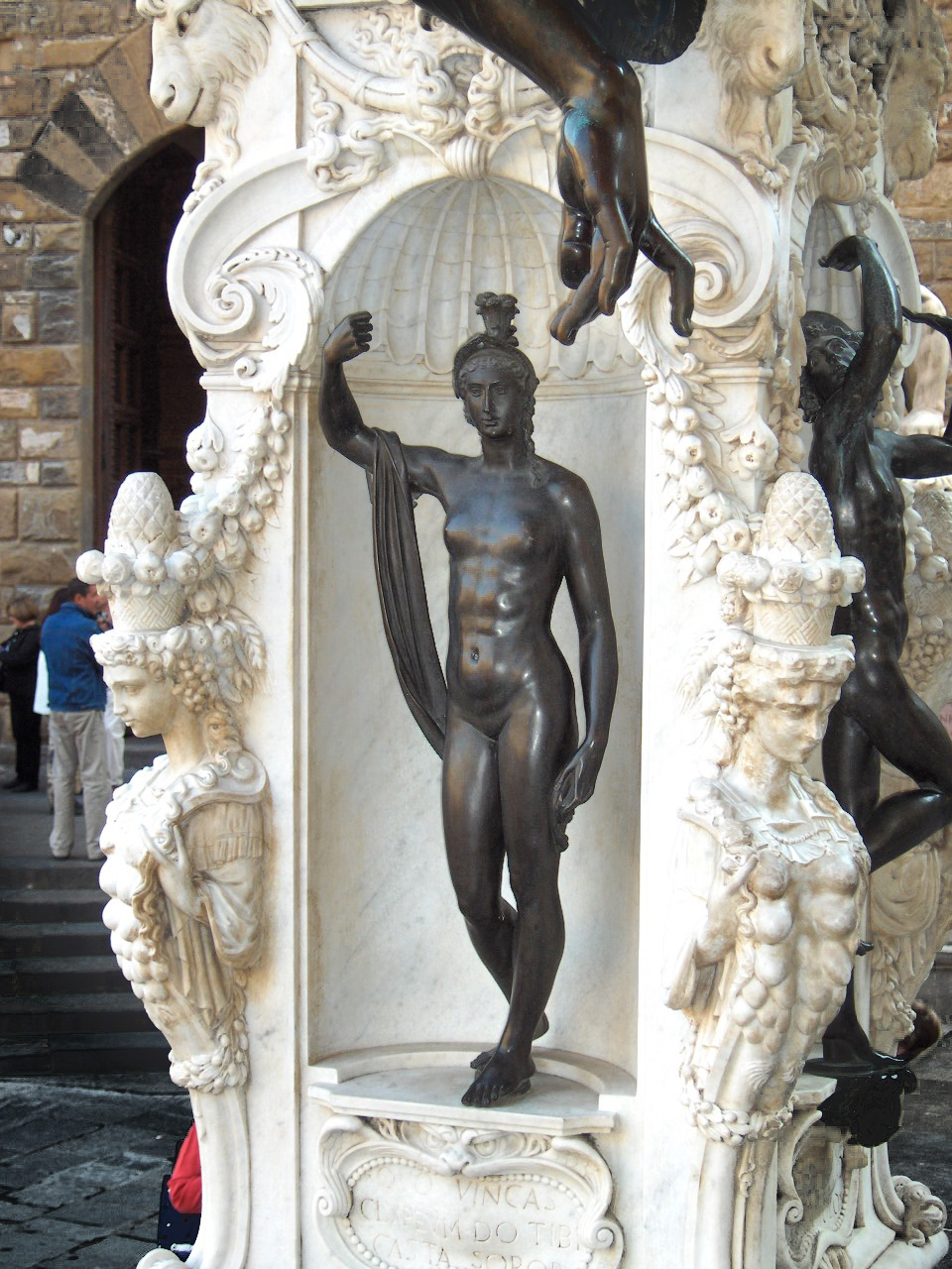 Modern replica of a statue in the pedestal of Perseus; Loggia dei Lanzi, Florence, Italy. The original is on display at the Museo del Bargello in Florence. Own photo - photo made on 12 October 2005.